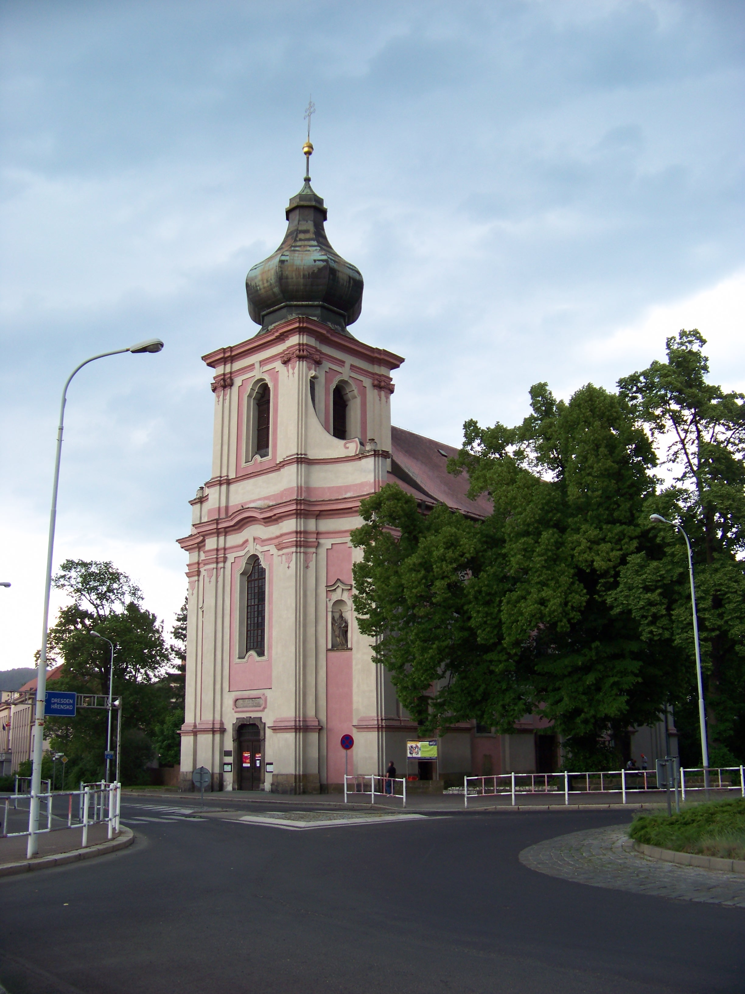 Děčín I-Děčín, Děčín District, Ústí nad Labem Region, the Czech Republic. 28. října street, Church of Saints Wenceslaus and Blaise.